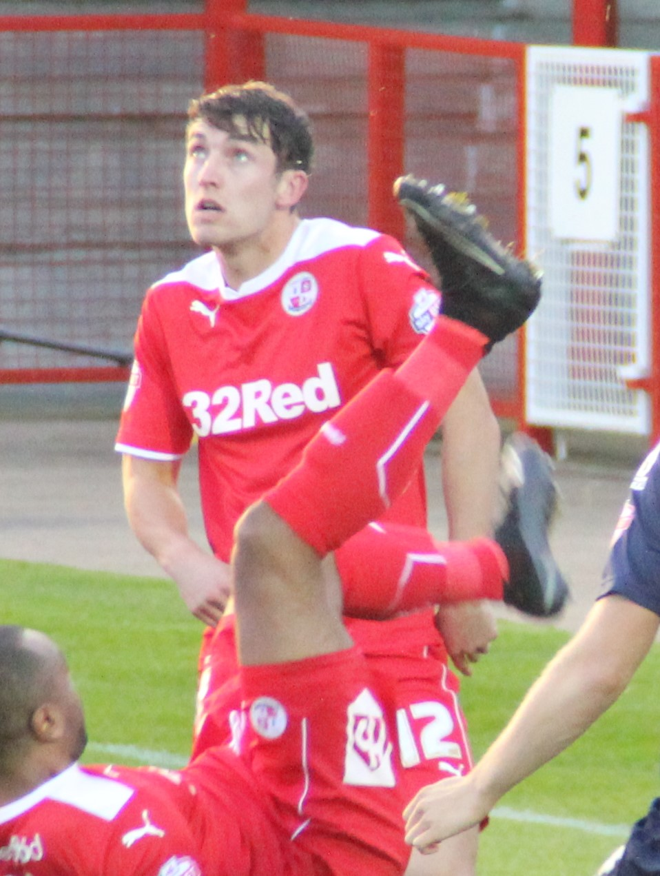 A photo from Crawley Town 1-1 Crewe Alexandra, 1 November 2014